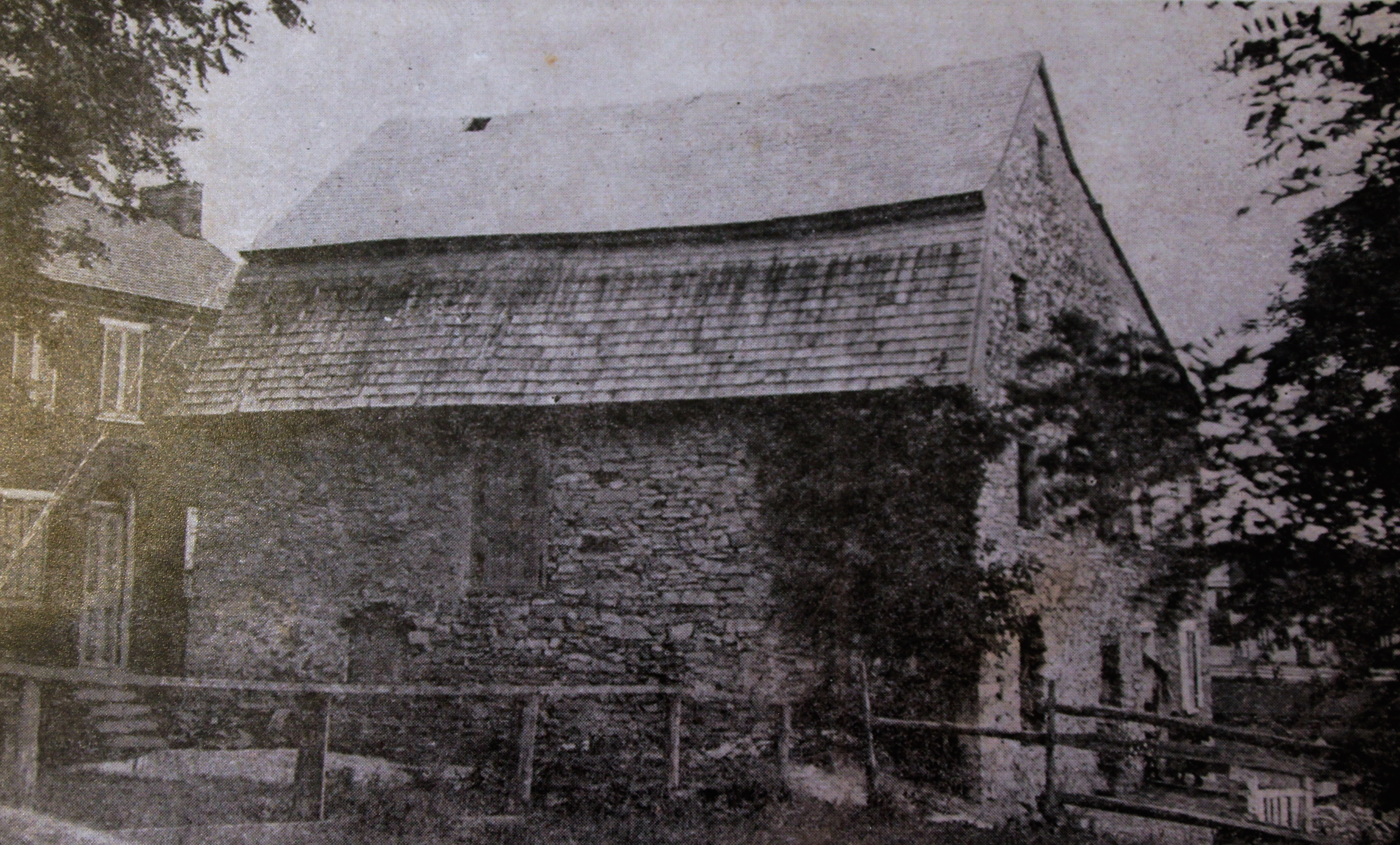 This is a circa 1895 picture of Light's Fort (showing the building's original external configuration).